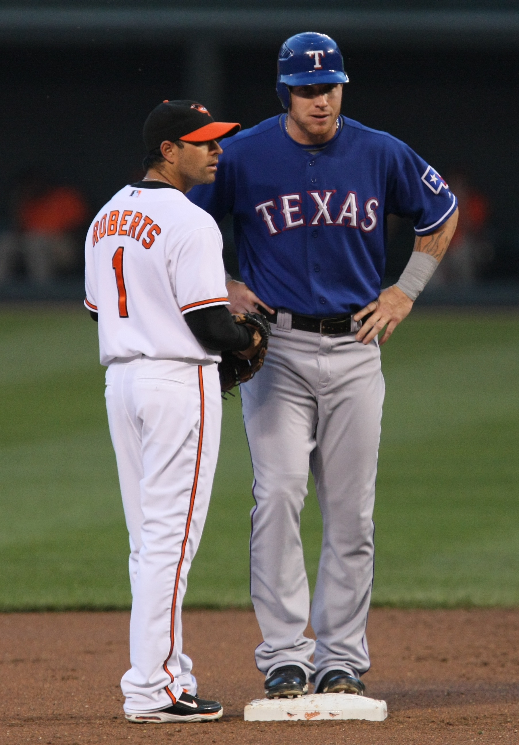 Brian Roberts (left) and Josh Hamilton